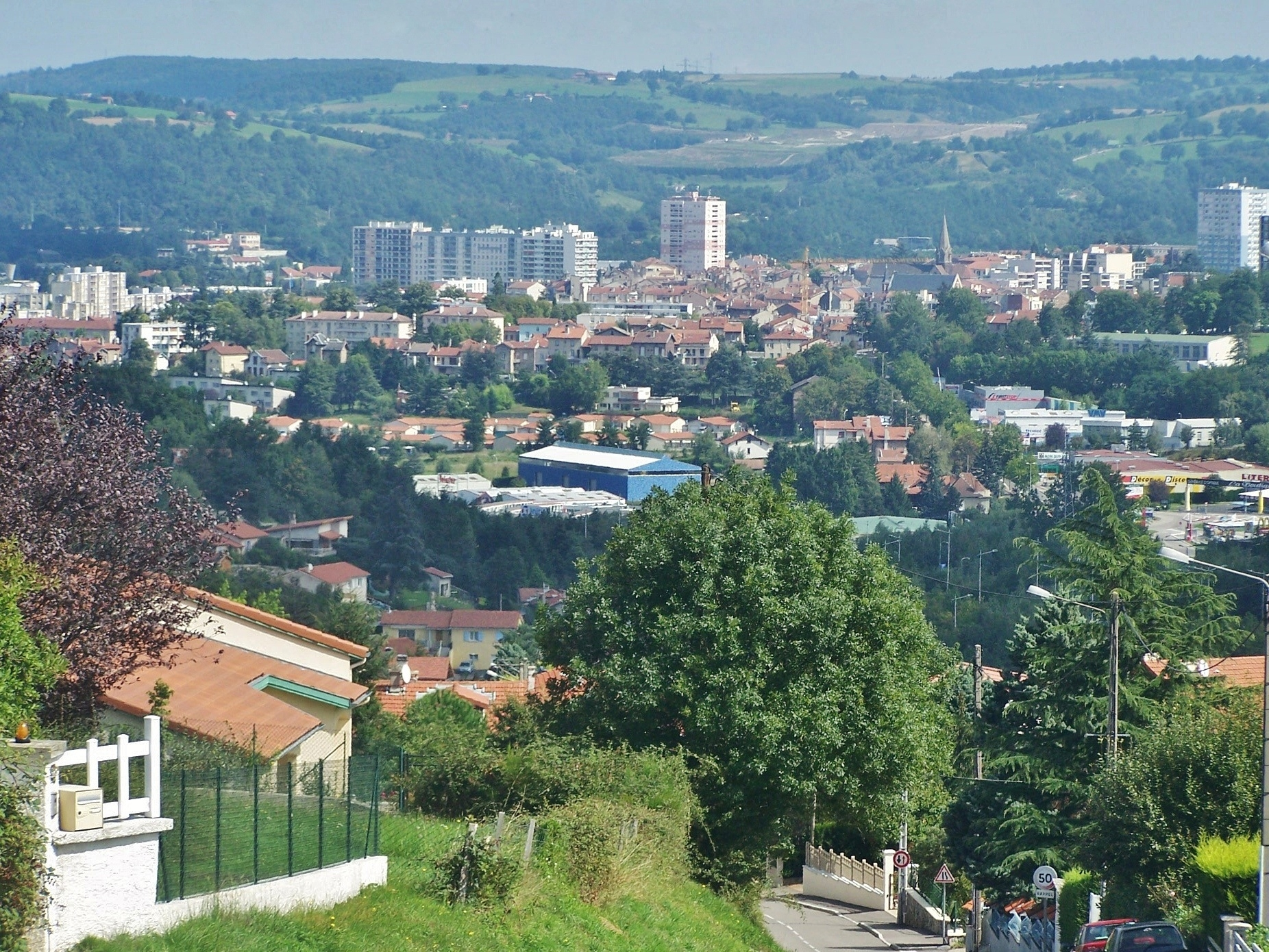 Wide sight of Firminy from the heights of the town, situated near Saint-Étienne in department of Loire, France.